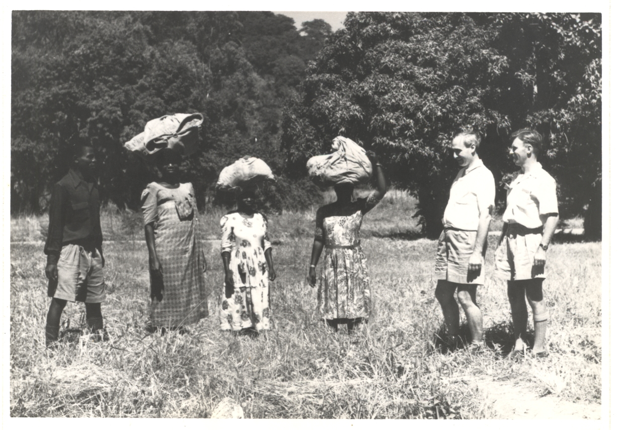 The last female mail carrier service